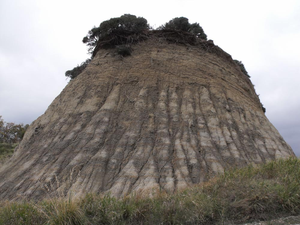 Badlands near Cinigiano (Grosseto province, Tuscany, Central Italy)